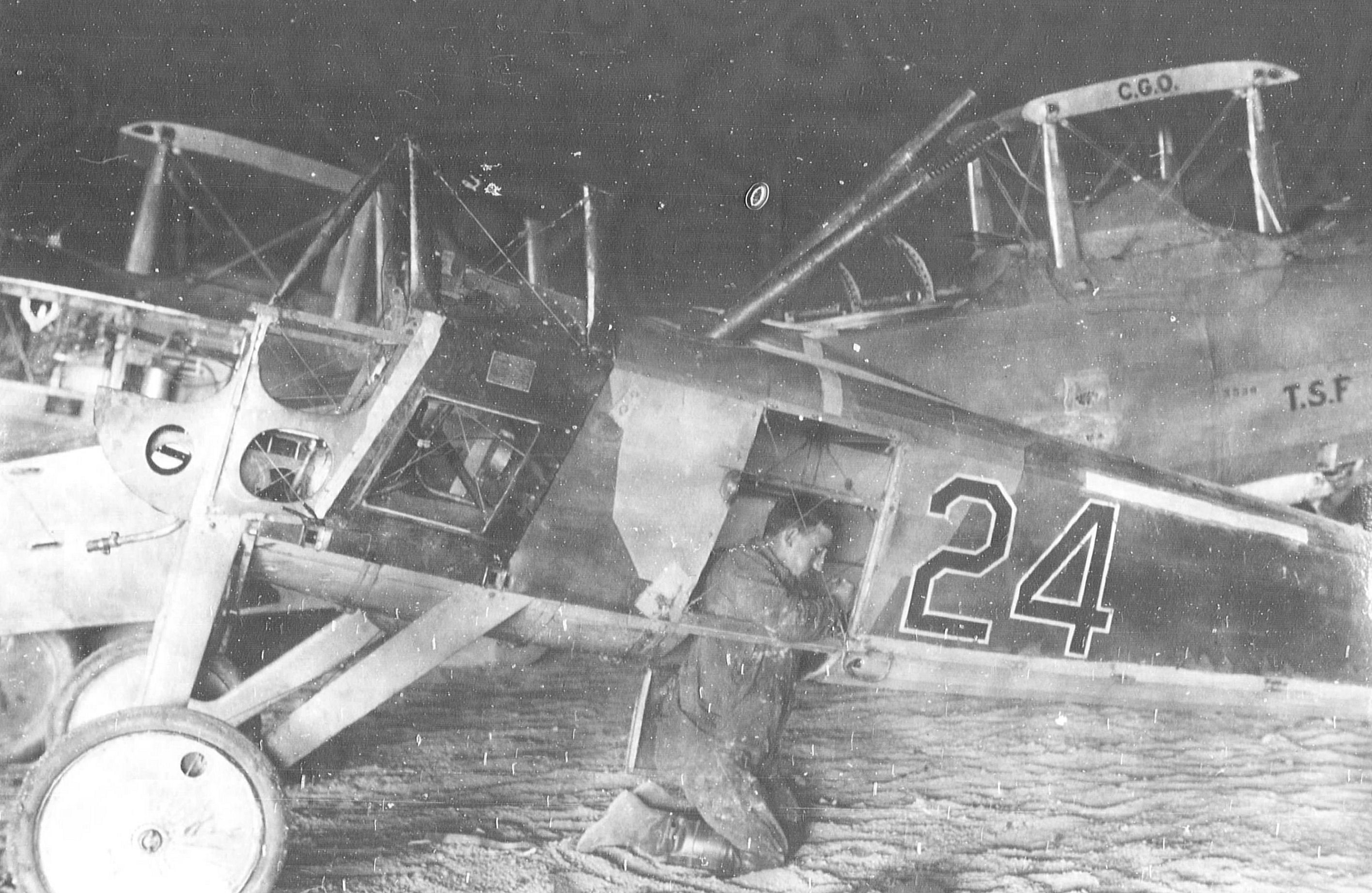 Colombey-les-Belles Aerodrome - 1st Air Depot Aircraft Salvage Source: Series 1, Paris Headquarters and Supply Section, Volume 30 History of the 1st Air Depot at Colombey-les-Belles, Gorrell's History of the American Expeditionary Forces Air Service, 1917–1919, National Archives, Washington, D.C.